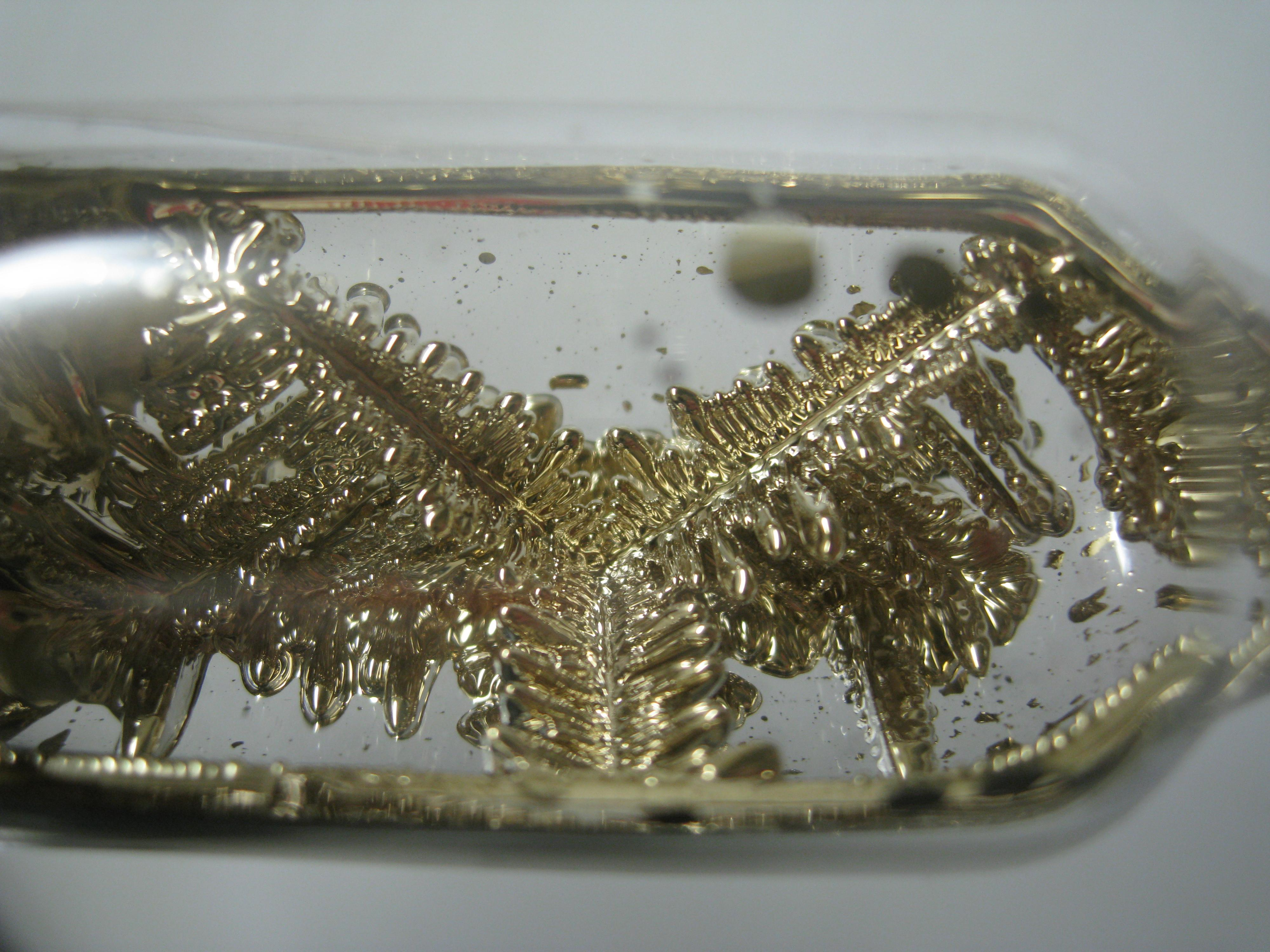 High pure cesium crystals, showing dendritic morphology. (From the Dennis s.k collection.)